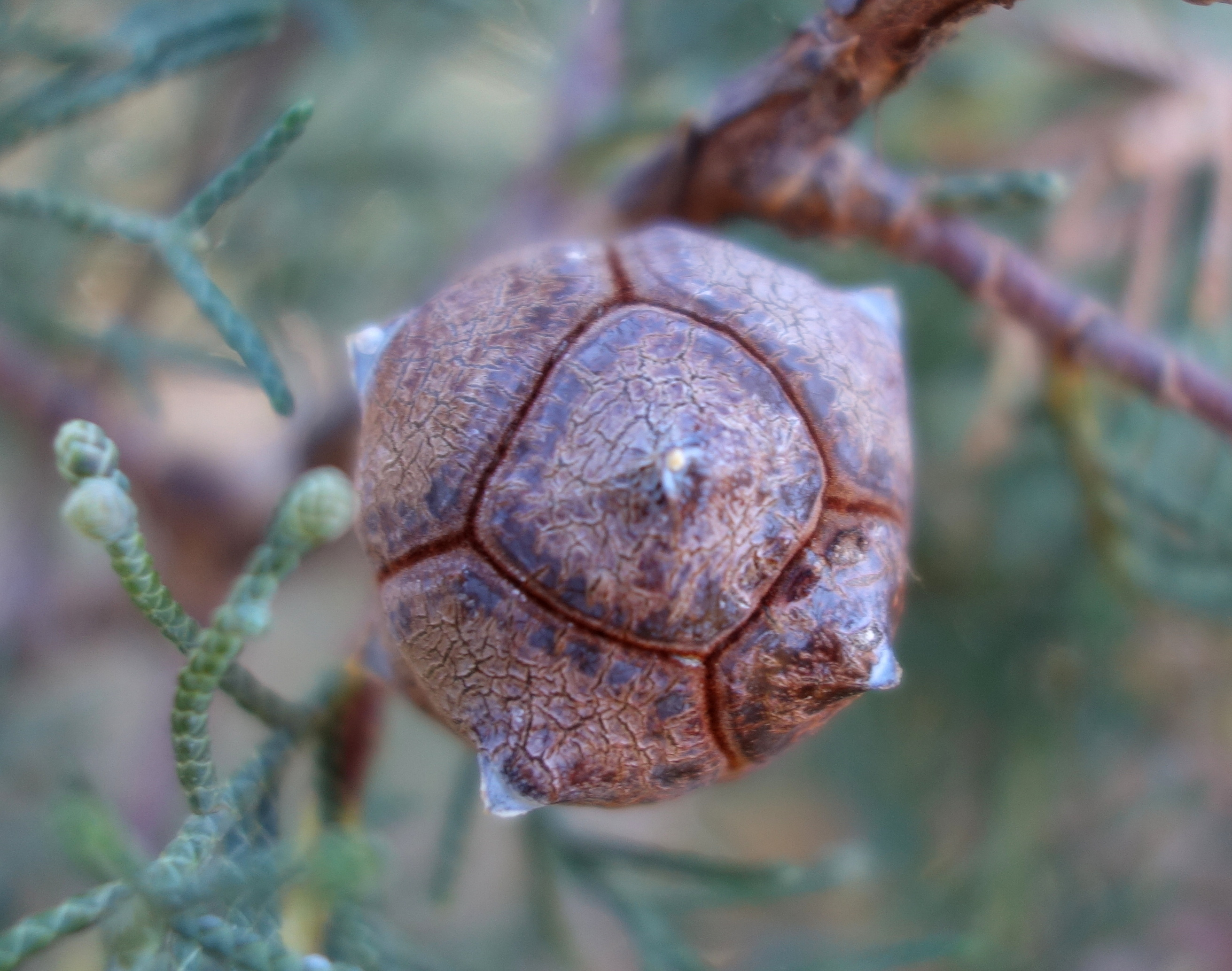 Botanical specimen in Quarryhill Botanical Garden, Glen Ellen, California, USA.